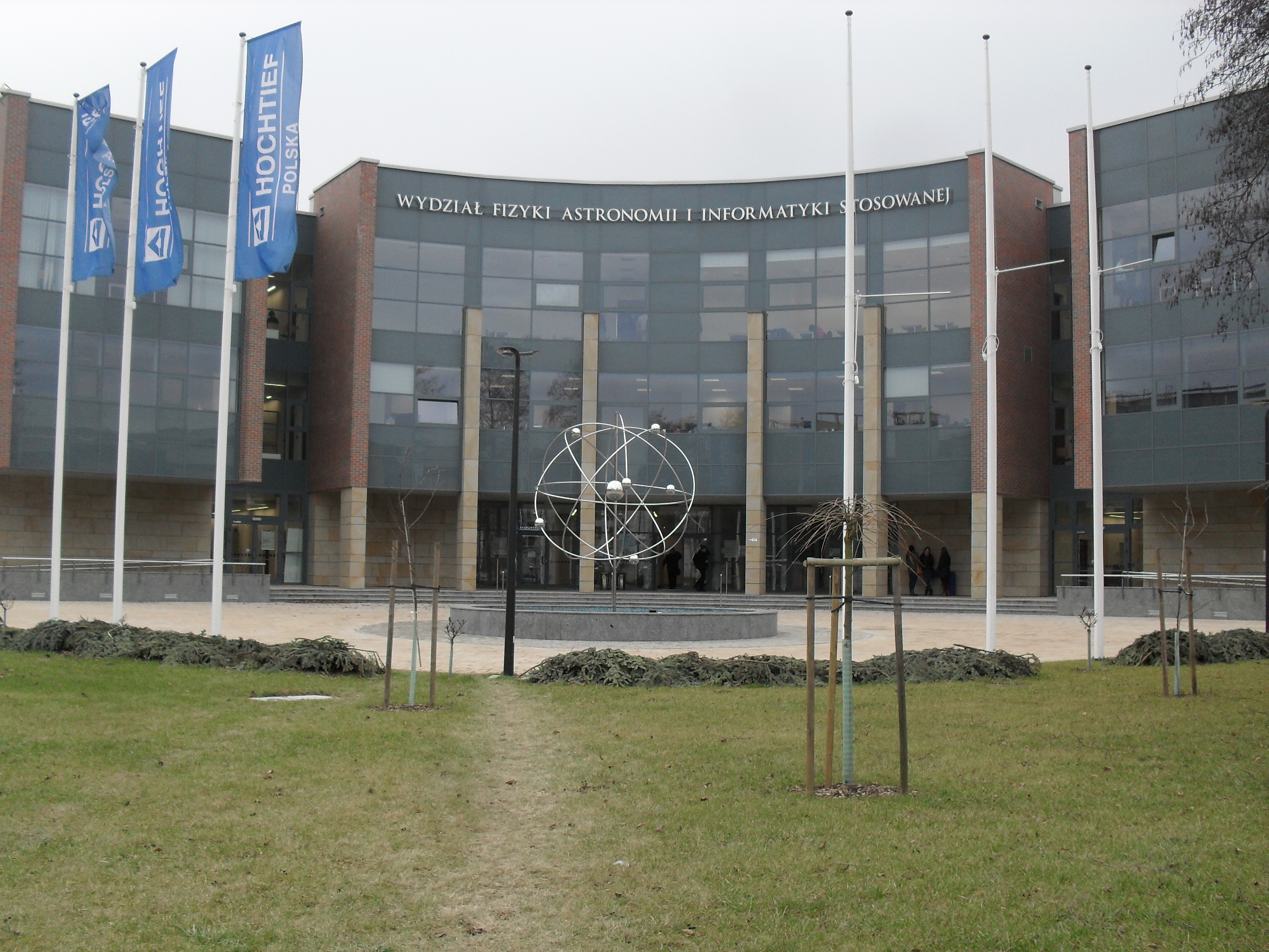 Faculty of Physics, Astronomy and Applied Computer Science UJ